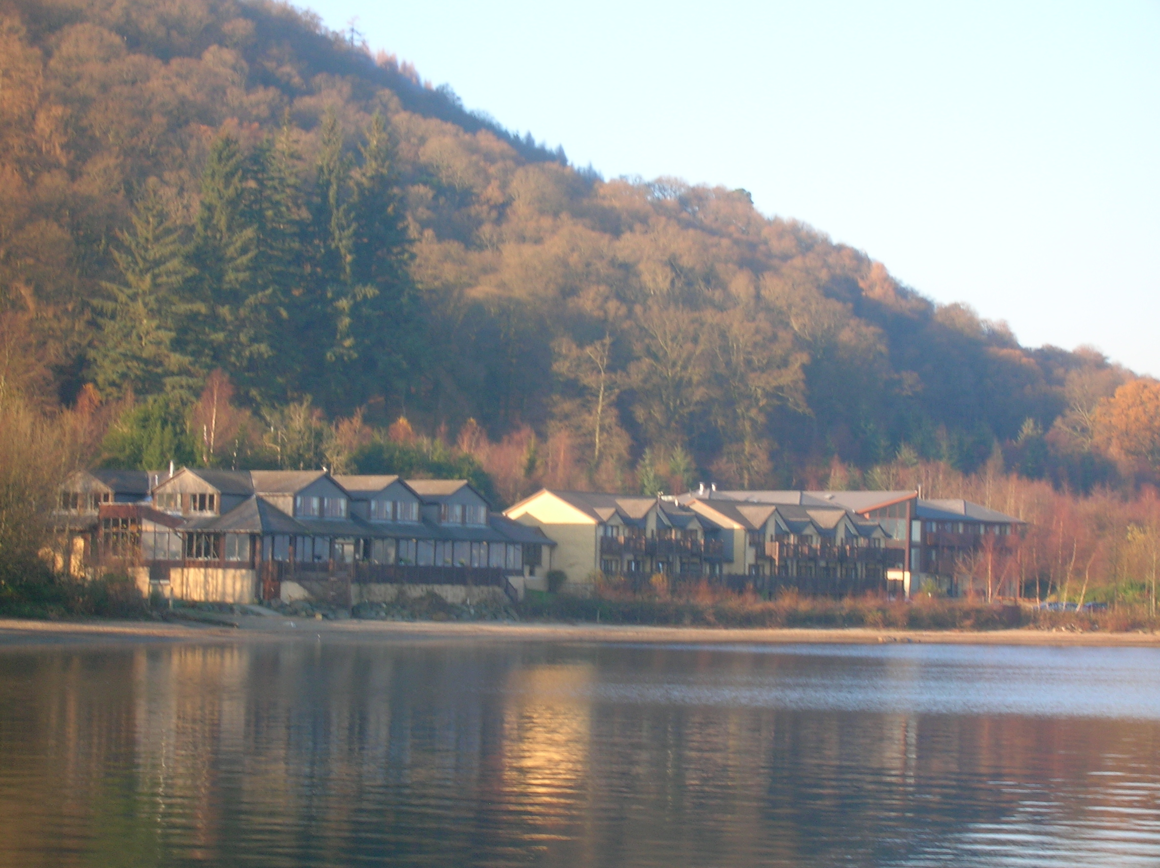 The Cameron Hotel at Luss from the pier.